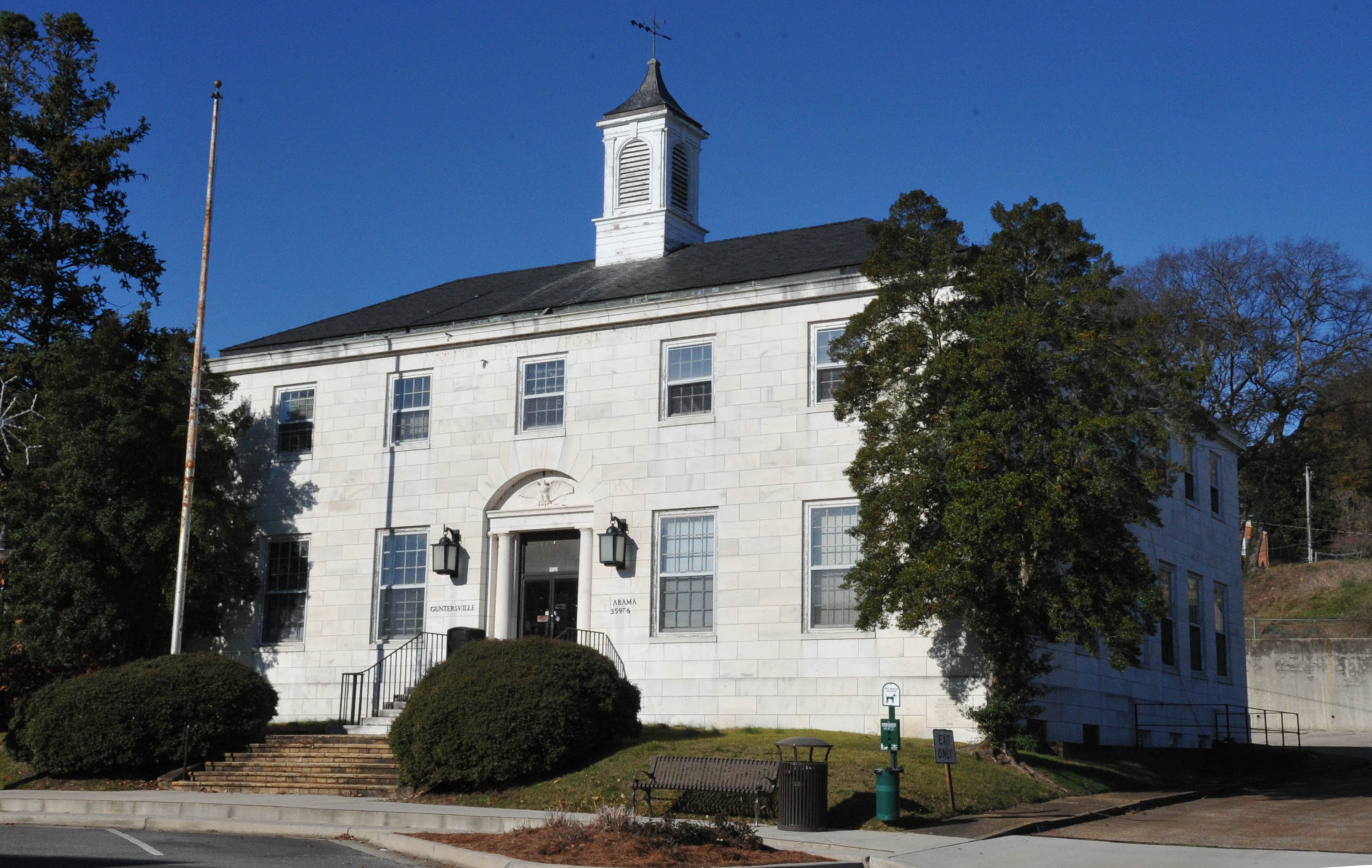 BUILT IN 1940–41 BY THE WORK PROJECTS ADMINISTRATION IN COLONIAL REVIVAL STYLE.